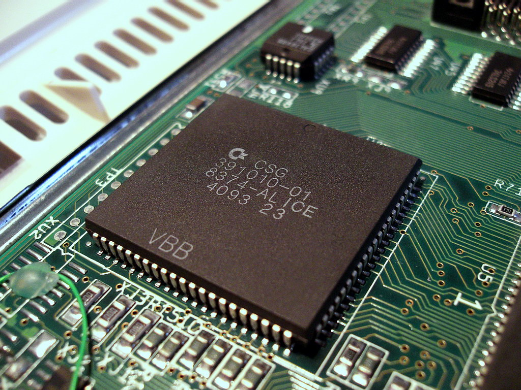 8374 Alice Chip im Amiga 1200